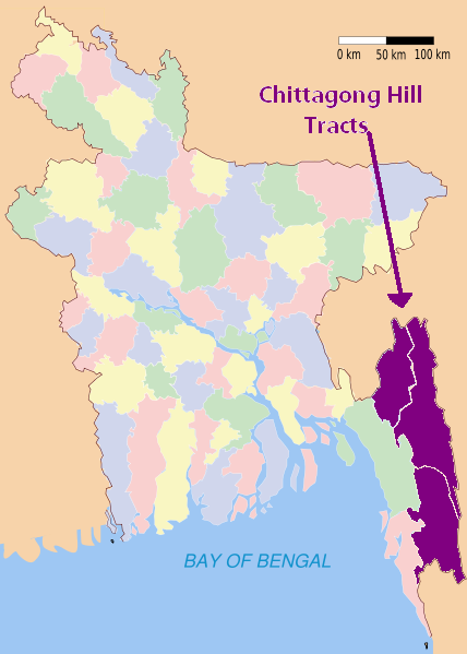 CHTs locator map in purple in Bangladesh